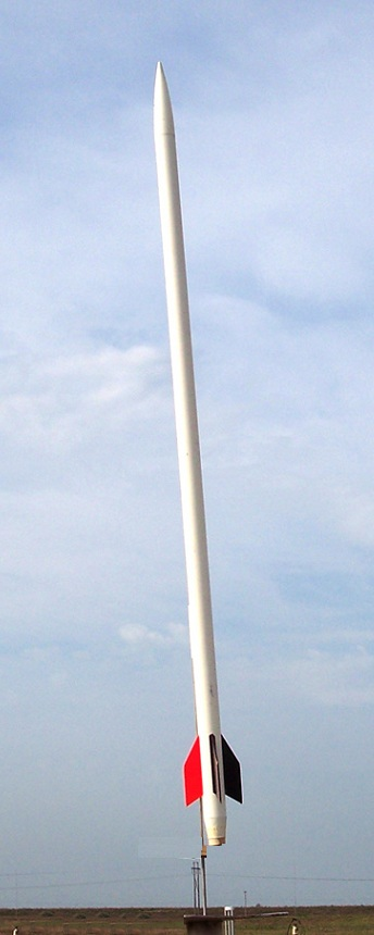 Hyperion sounding rocket model (cropped image).